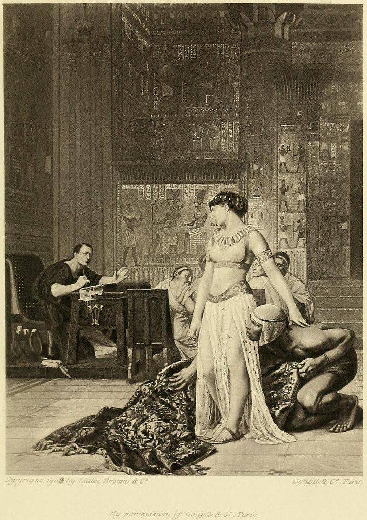 Jean-Léon Gérôme, Cleopatra and Caesar; photo by Goupil